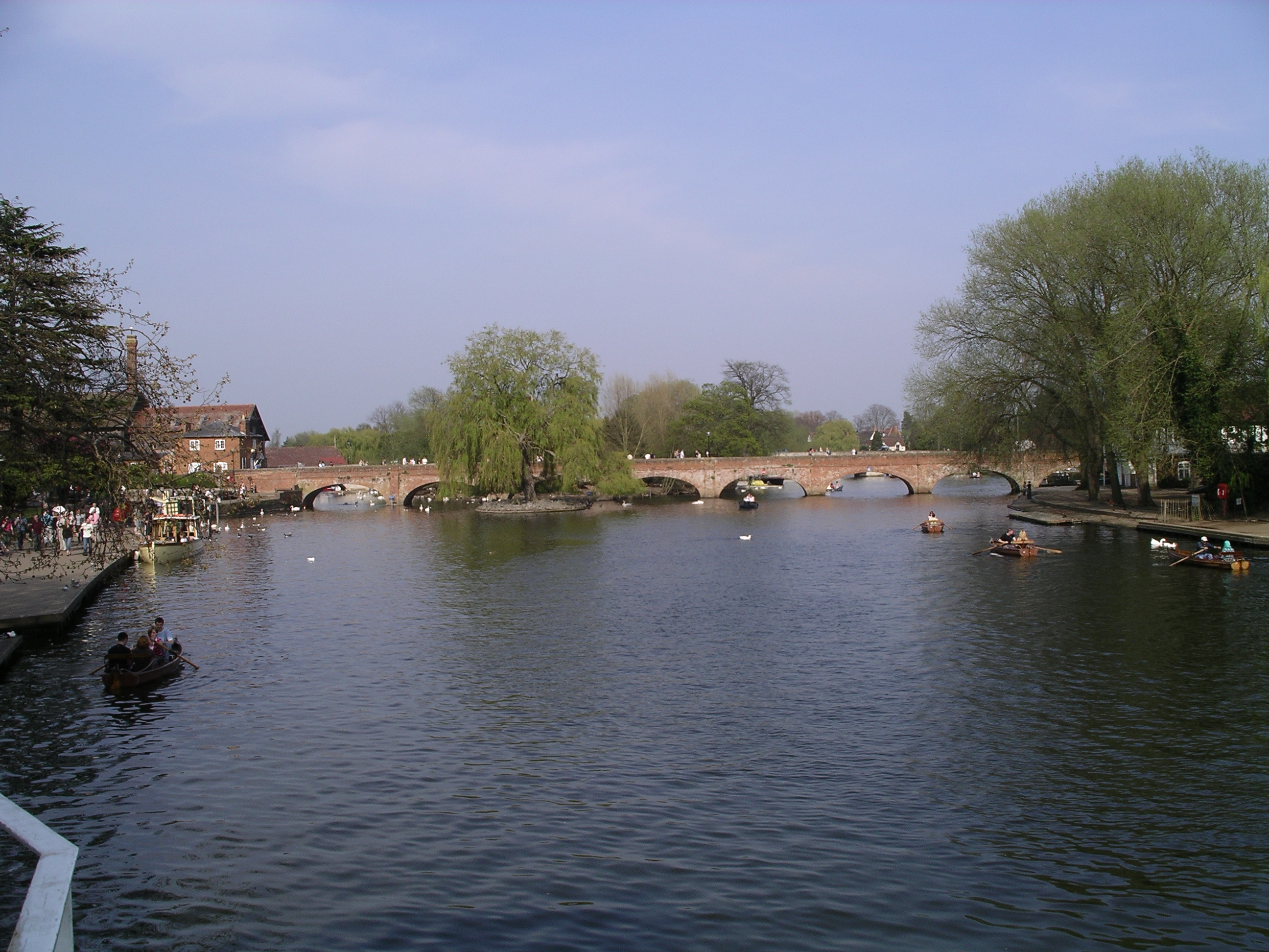 Photograph of the bridge over the River Avon in Stratford-on-Avon opposite the Royal Shakespear Theatre.